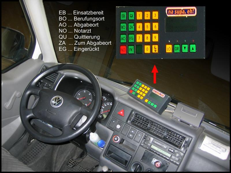 Fahrerzelle/Cockpit eines Krankenwagens (KTW) des Arbeiter-Samariterbundes Österreich, Modell VW T4 Transporter mit Detailansicht des Datenfunk-Terminals Cockpit of an austrian Ambulance car which shows the radio terminal used for communication.